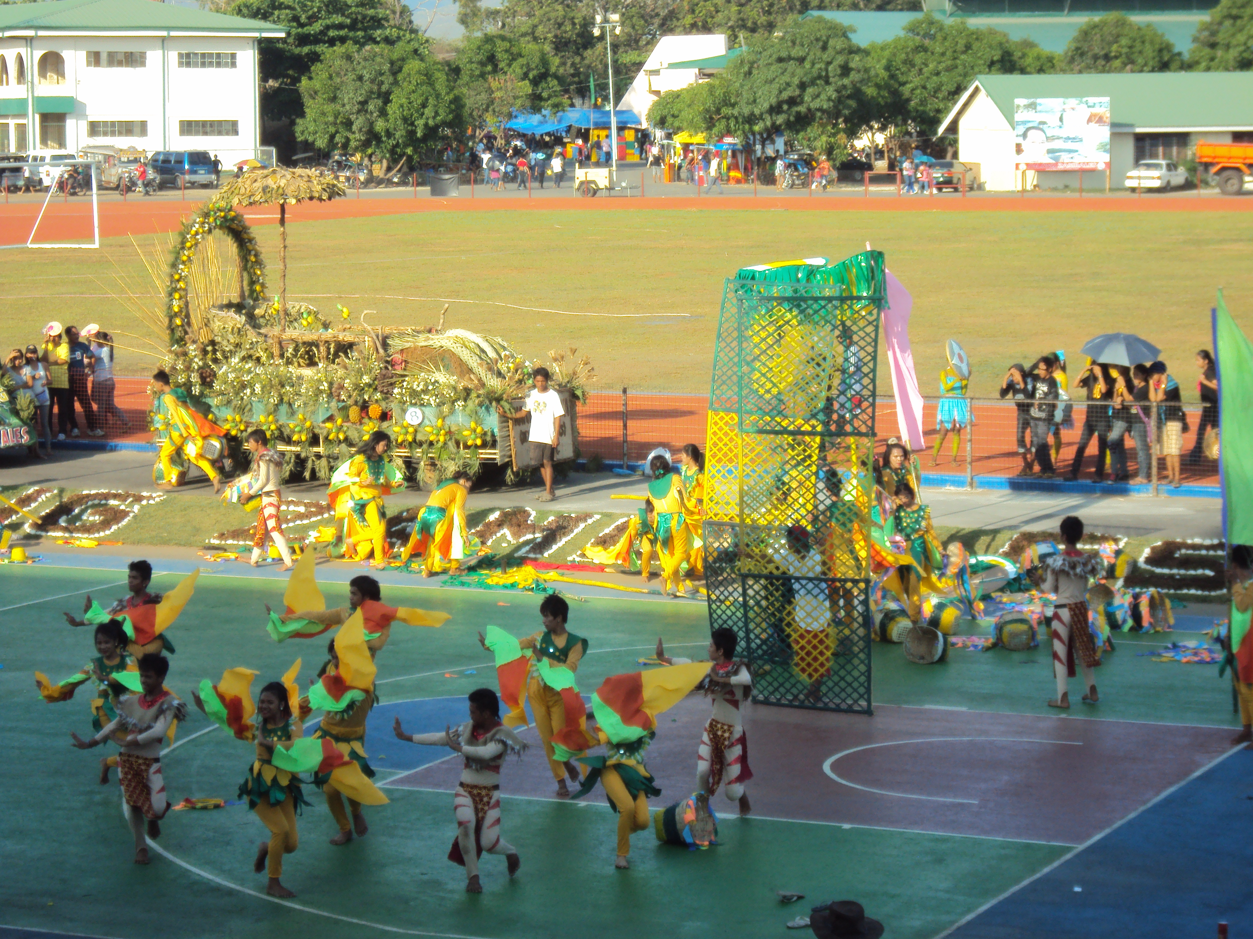 Street Dancing Competition nn Zambales Sports Complex during the Mango Fest Street Dancing Competition